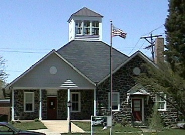 Claymont Stone School. Photo taken and donated by contributor "APatcher" - April 18, 2006 I grant anyone the right to use this work for any purpose without any conditions.